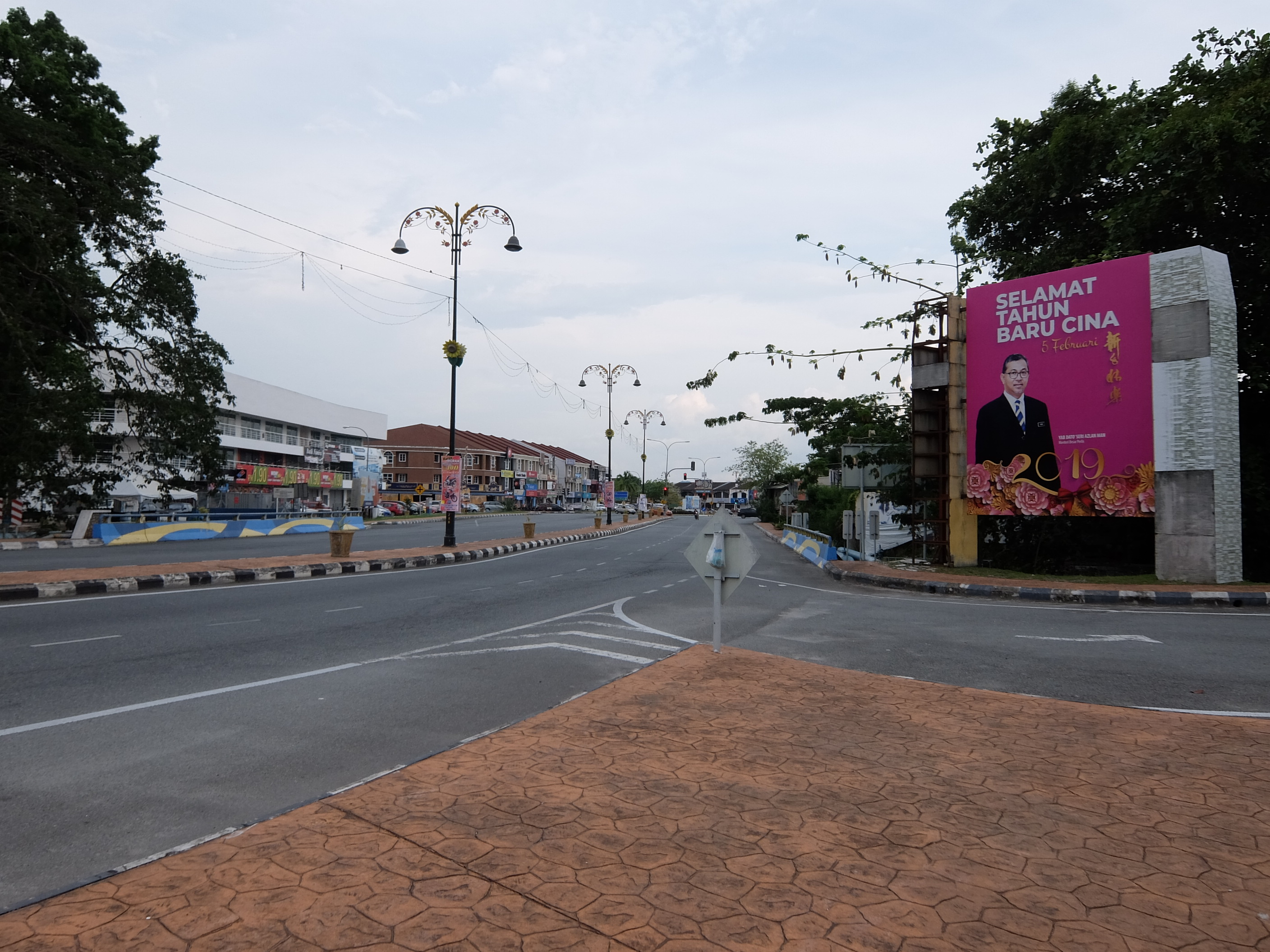 Arau, Perlis, Malaysia